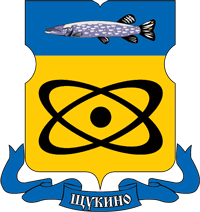 Schukino (rayon of Moscow), proposal coat of arms (2003)